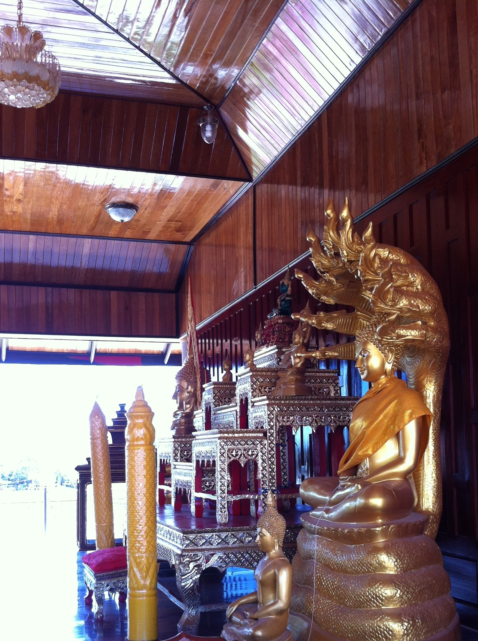 พื้นที่กิจกรรมทางศาสนา